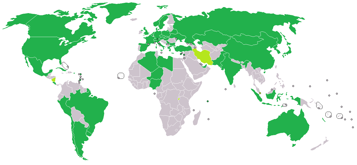 dark green - ratified light green - signed, but not yet ratified Other information Based on File:World map model.png.[1]